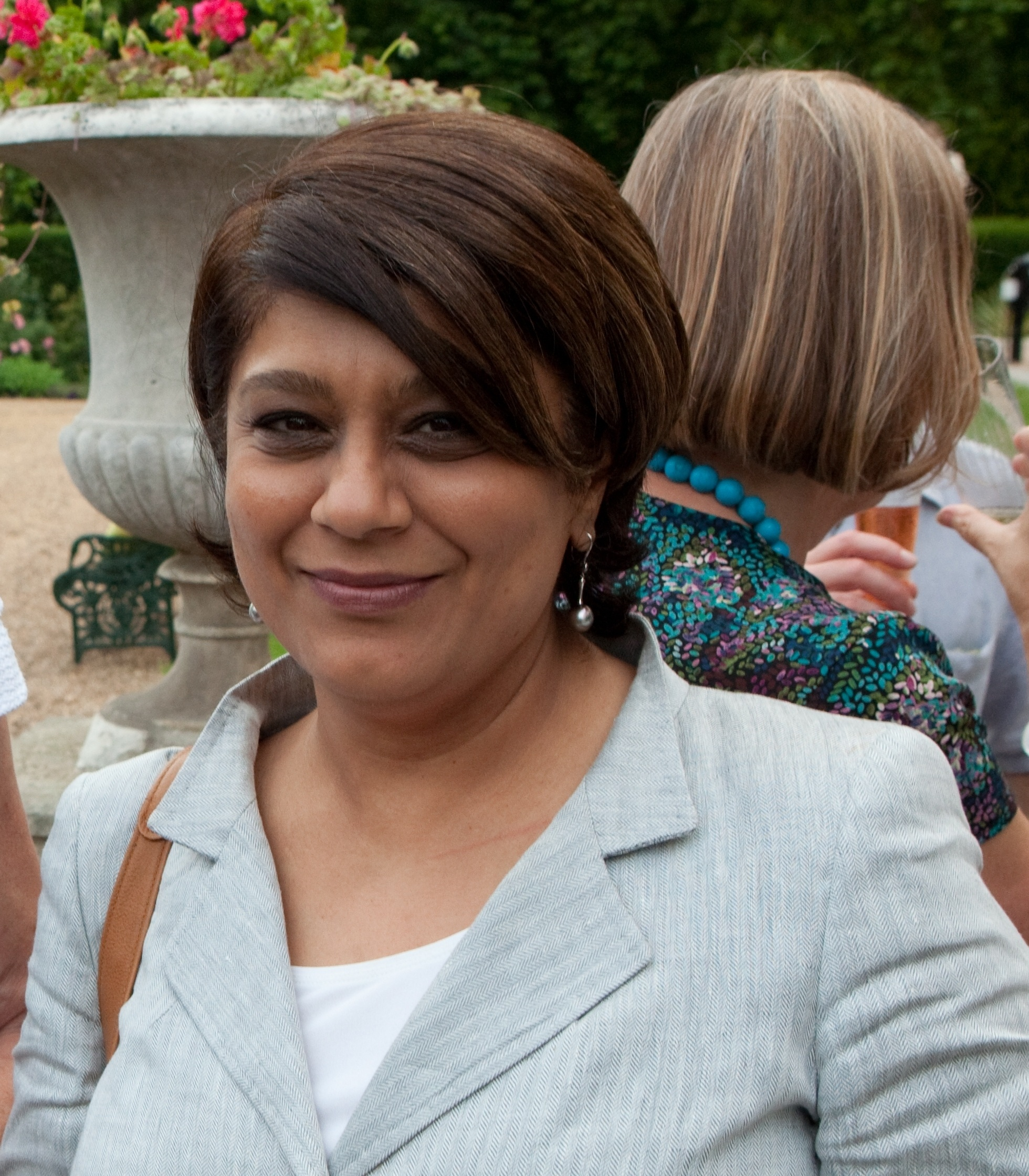 Shriti Vadera, Baroness Vadera at the Financial Times annual summer party in the garden of Lancaster House, London